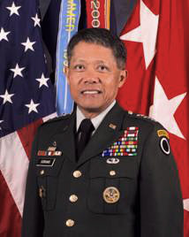 Lieutenant General Edward Soriano from [1]